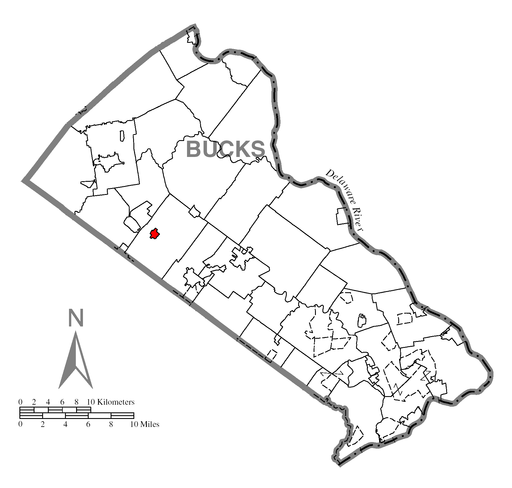 A map of Bucks County showing Silverdale, Pennsylvania (alternate) highlighted on the map.